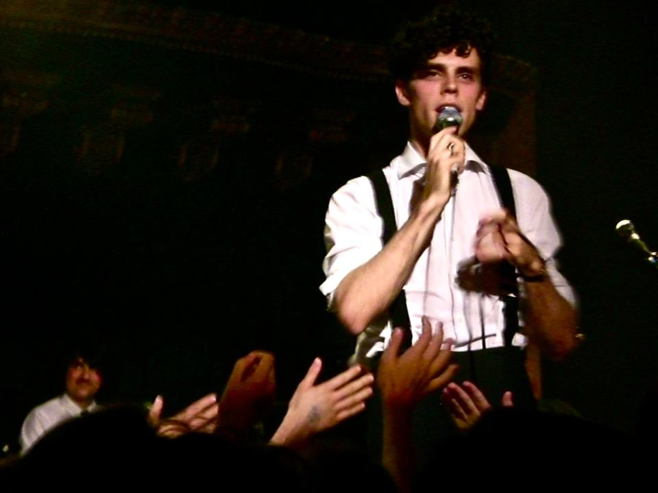 Noah and the Whale